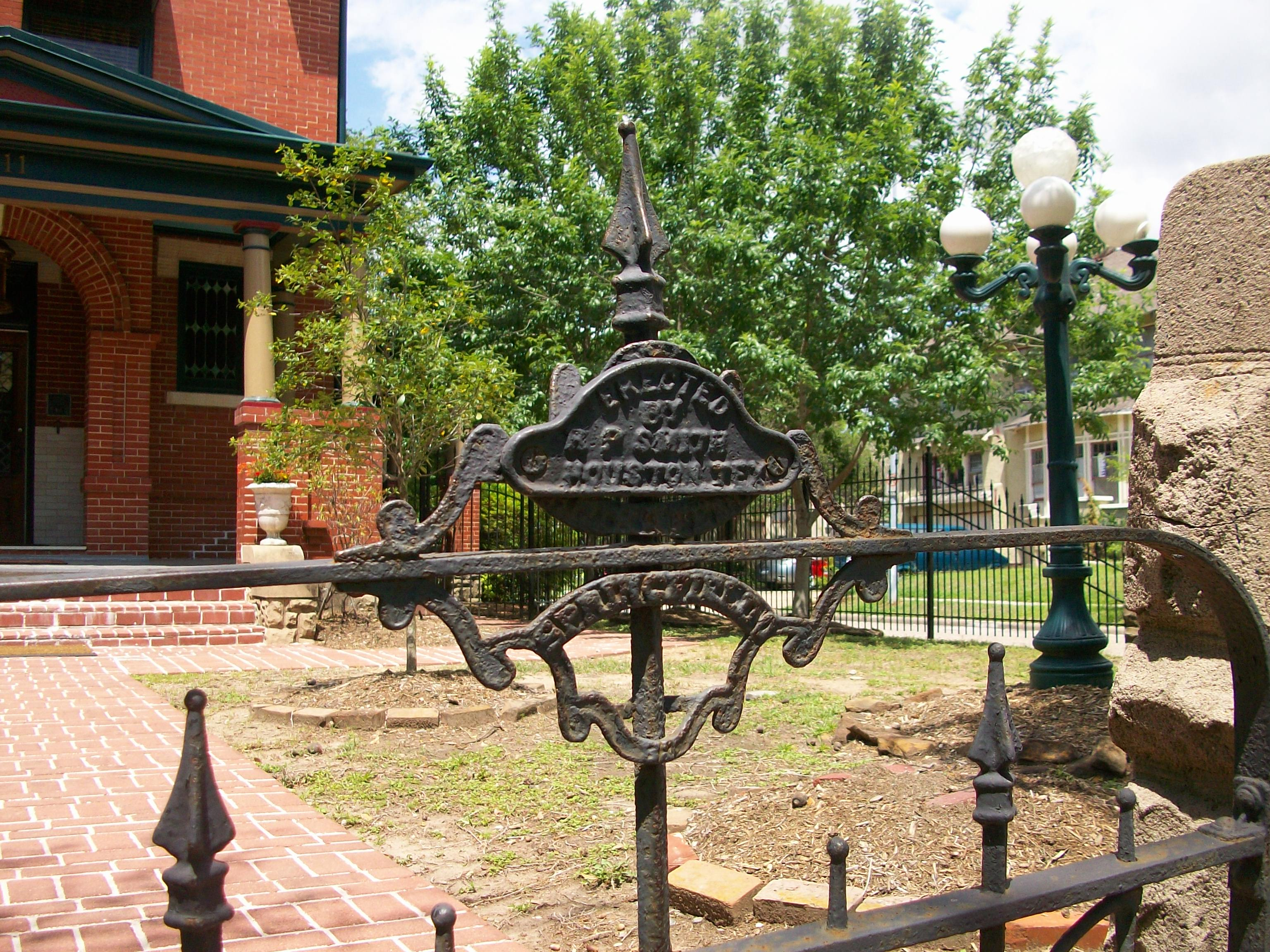 Webber House garden view